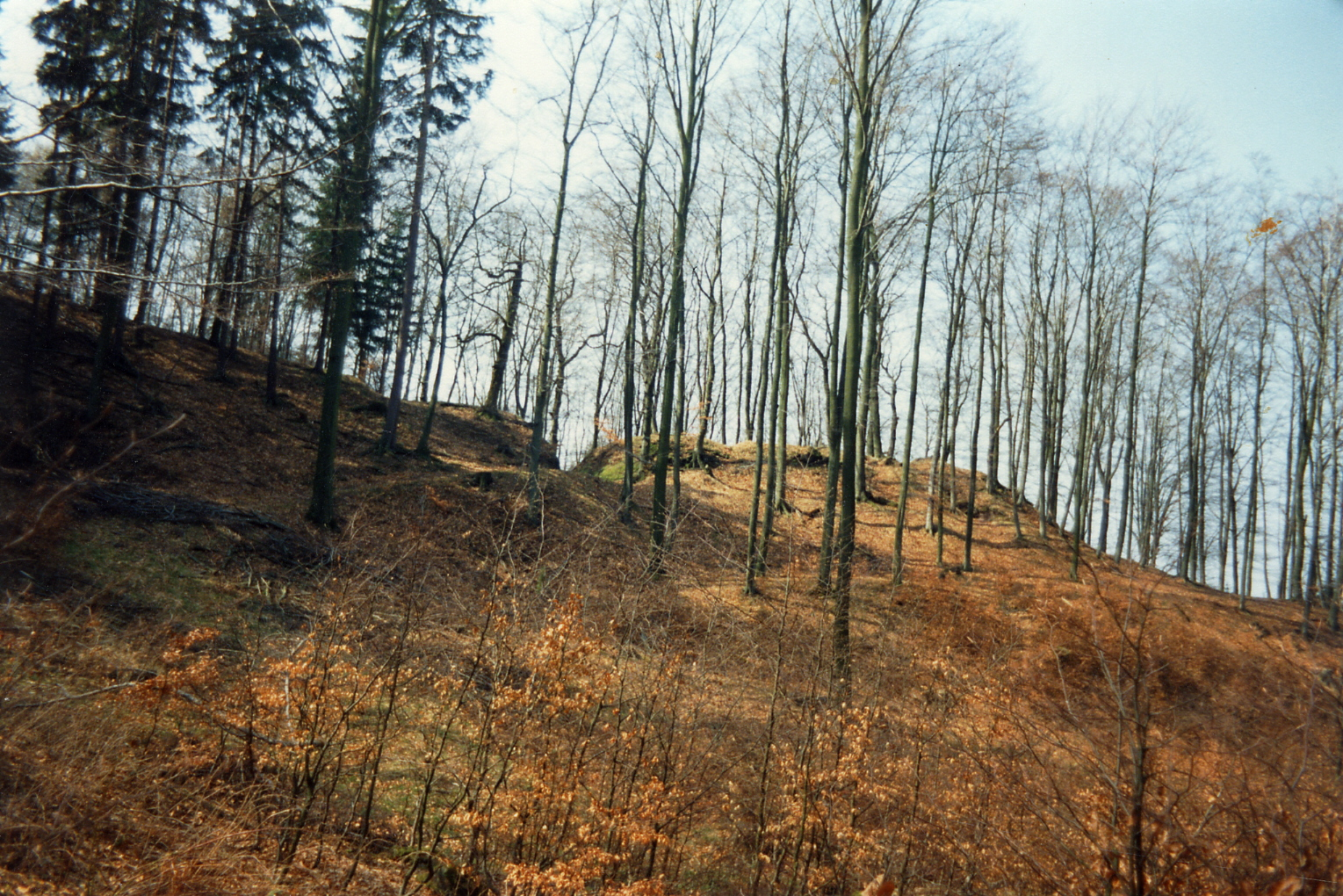 Waldfisch village, the castle Alter Ringelstein.